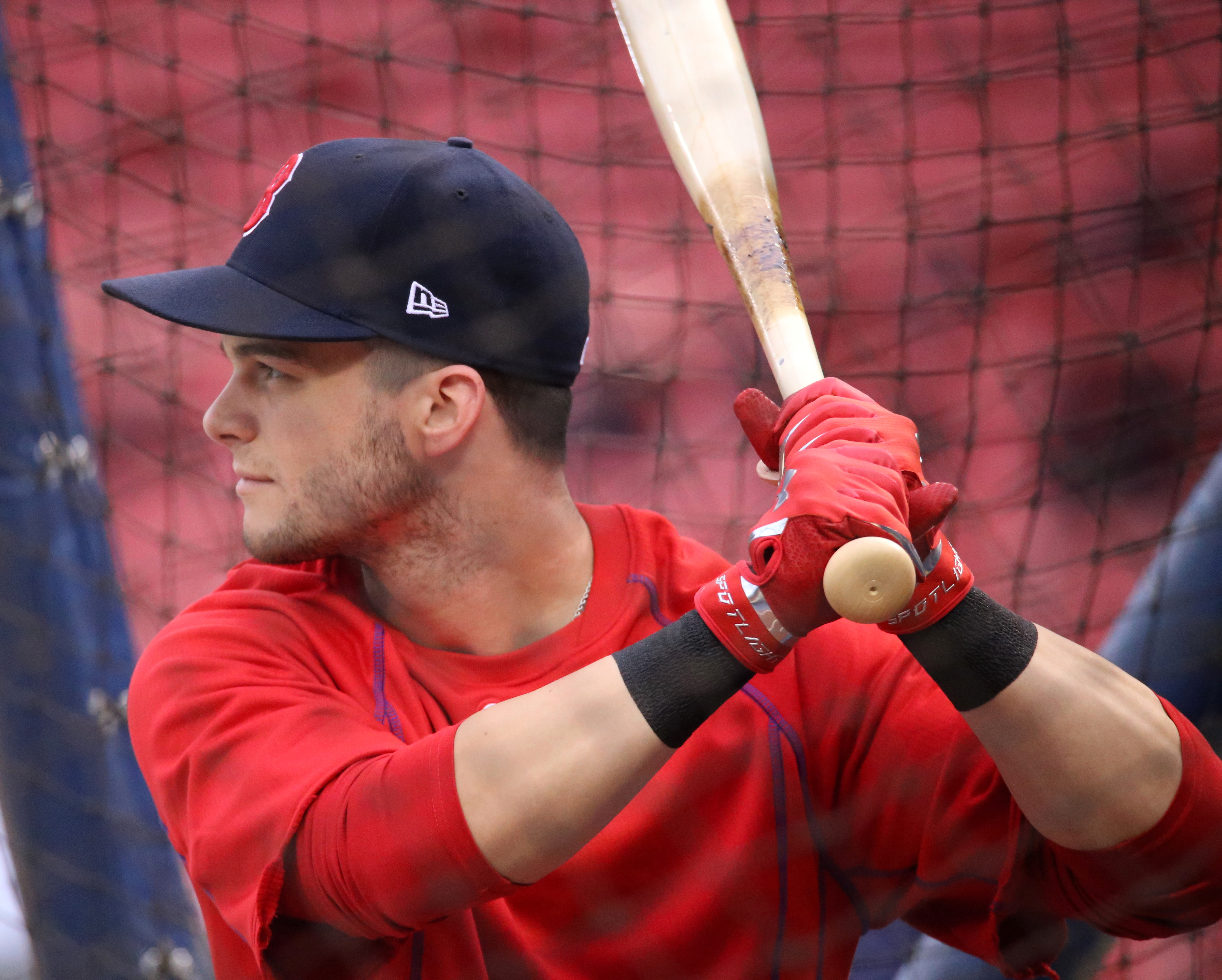 Red Sox outfielder Andrew Benintendi takes batting practice during Saturday's workout at Fenway Park.